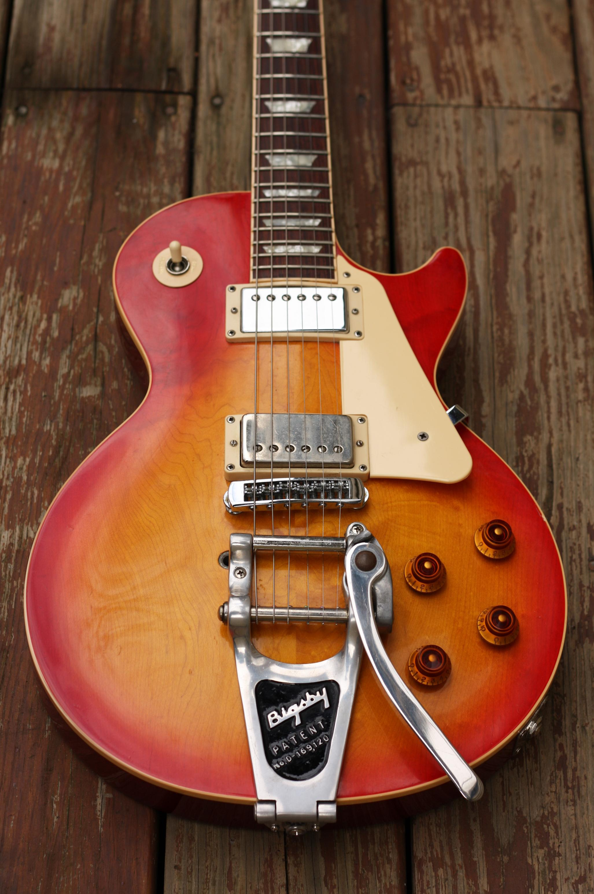 Gibson Les Paul Standard w/ Bigsby